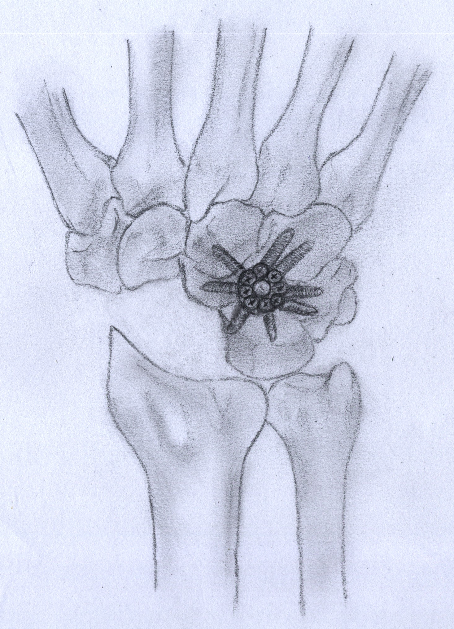 Four Coner fusion, surgical procedure for post-traumatic wrist osteoarthritis stage II/III